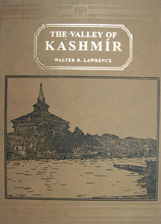 This is the front cover of the book “The Valley of Kashmir“. It is required for an article of the same page.